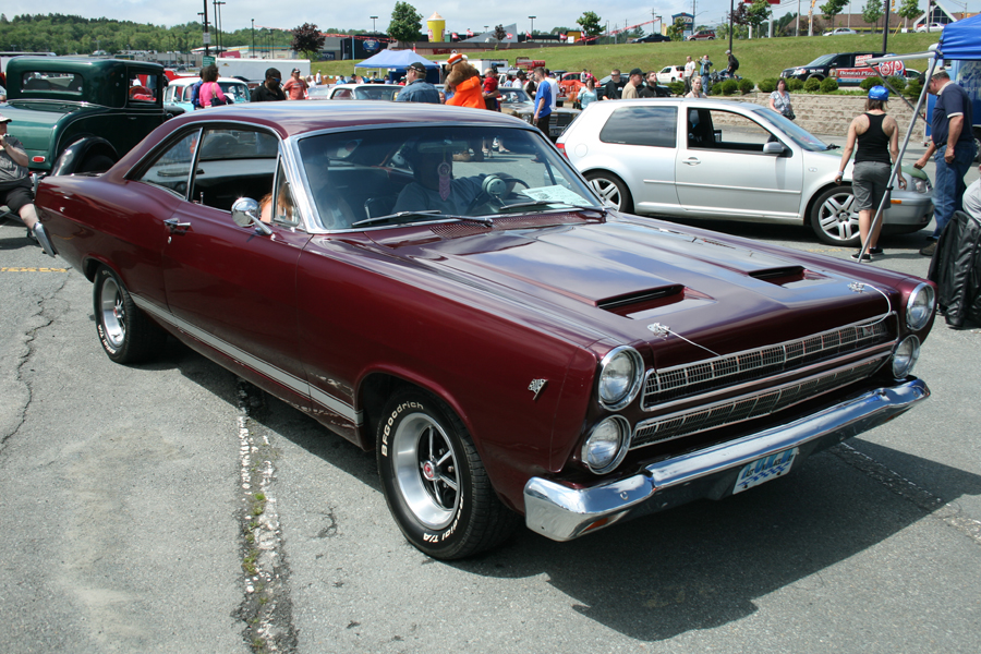 1965 Mercury Cyclone GT